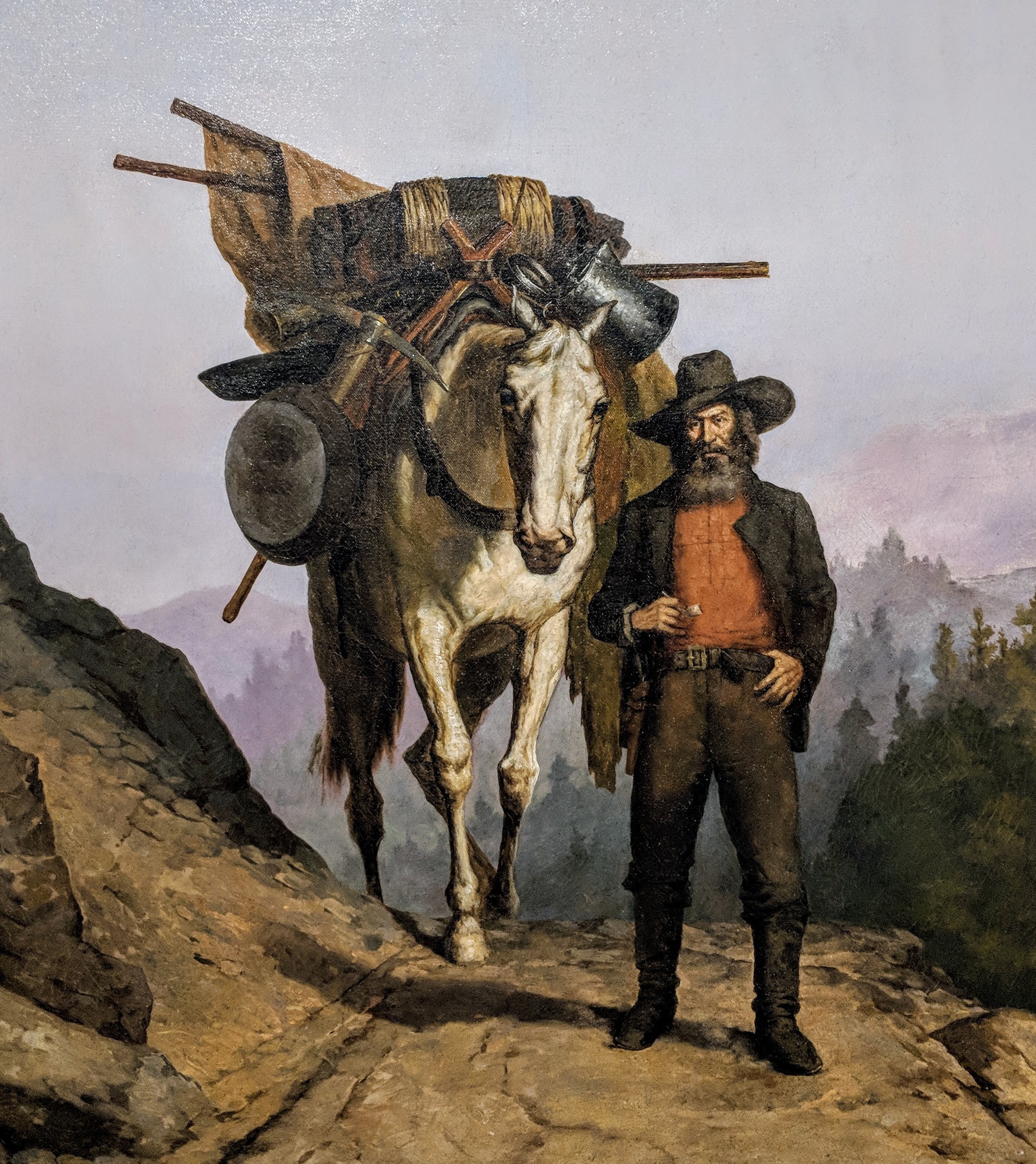 A detail of an 1887 painting "California Miner with Pack Horse", by Henry Raschen (1884 - 1937). From the collection of the Oakland Museum of California. Photo by Jim Heaphy.